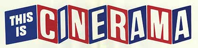 Logotype of the film "This is Cinerama"